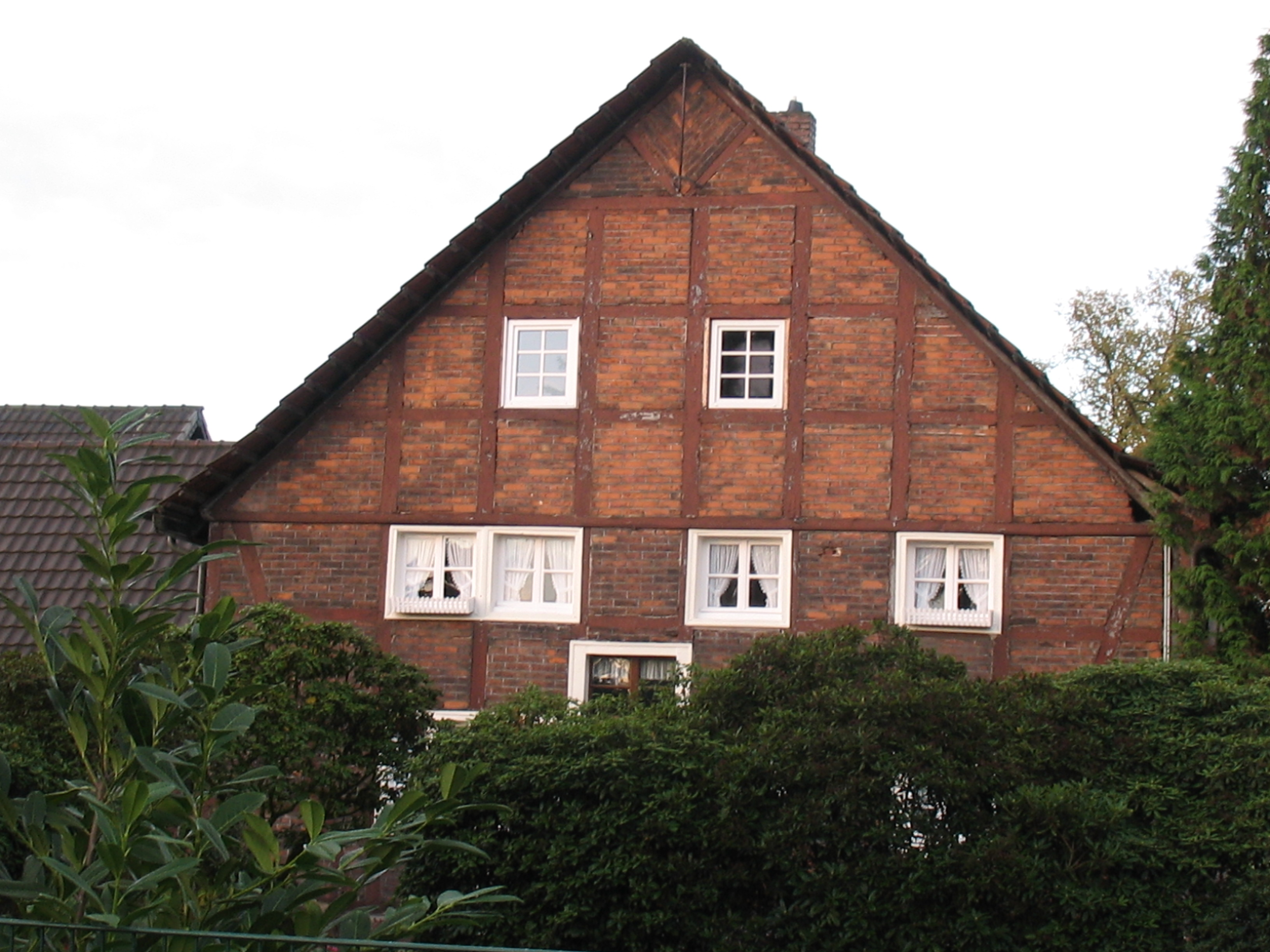 half-timbering house in Bockum-Hövel, Hamm in Westphalia, opposite the local railway station